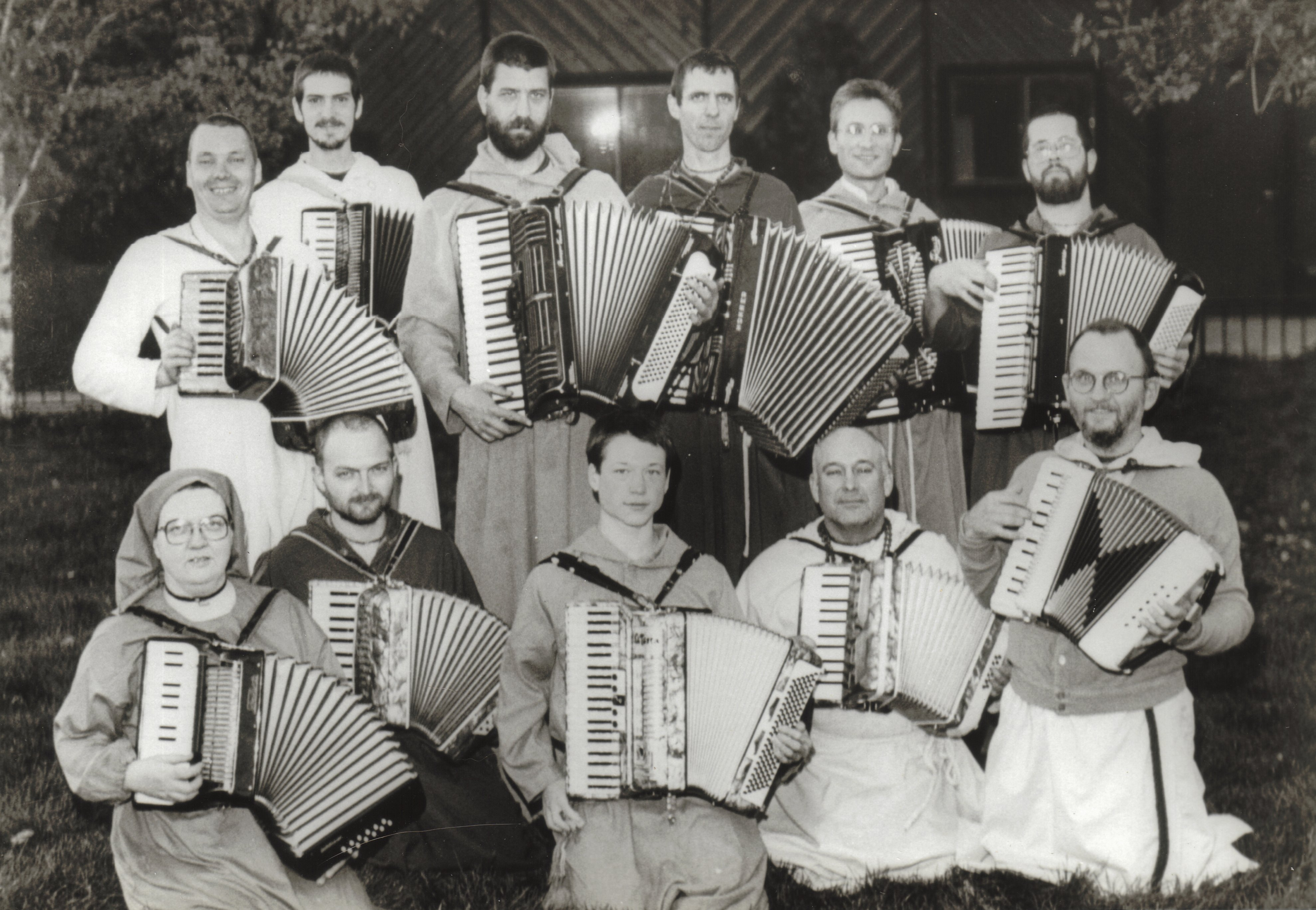 City of God Accordion Ensemble, Henry Doktorski Director, at New Vrindaban Community, Marshall County, West Virginia (1989). From private archives.